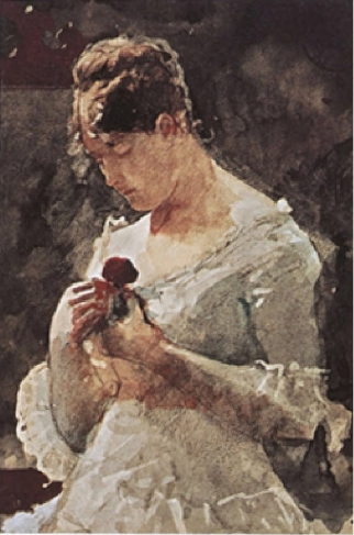 By Martha Tedeschi, Kristi Dahm. Watercolors by Winslow Homer: The Color of Light. Screenshot-2017-10-1